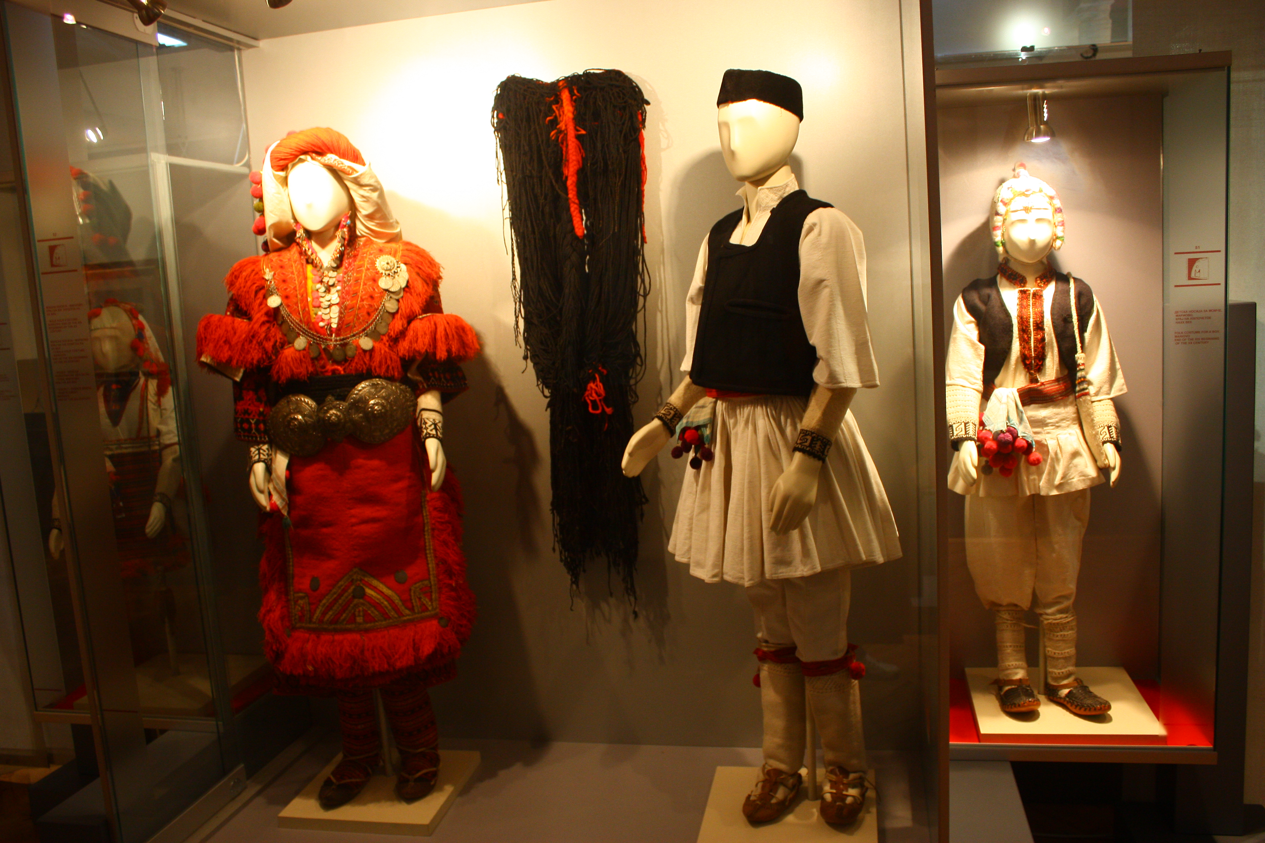 Mariovo national costumes in Bitola Museum, Macedonia